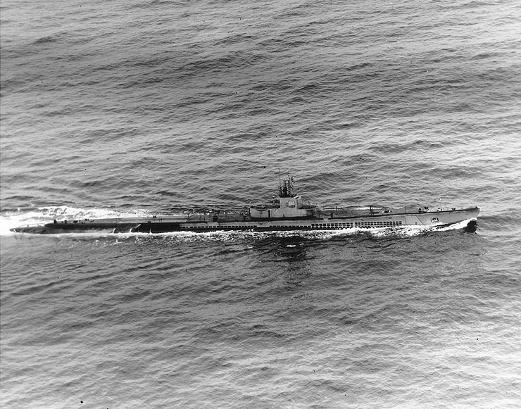 USS Tautog (SS-199) underway at sea, 29 May 1945. Note the scoreboard painted on her conning tower, representing Japanese ships sunk by Tautog. Original caption: “Photo # 80-G-323879 USS Tautog underway, 29 May 1945” — removed caption